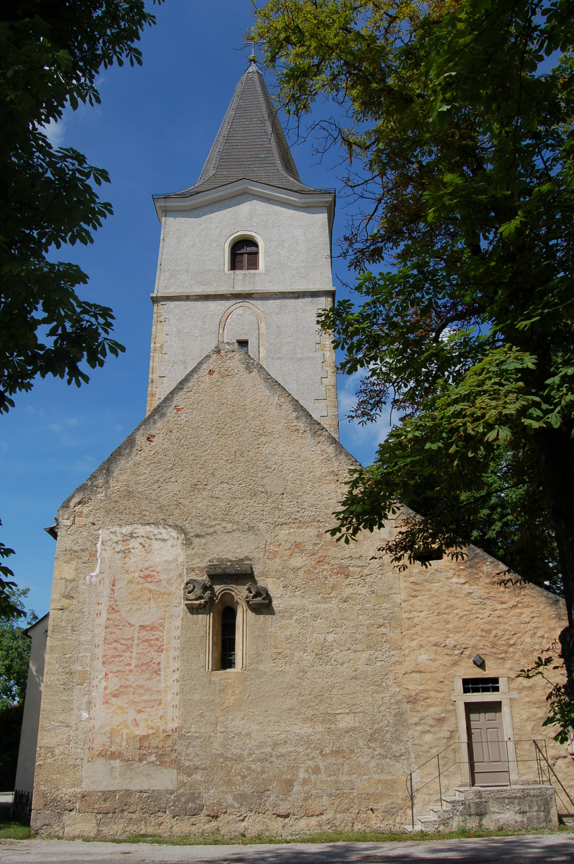 Eastern facade of St. Giles parish church in St. Egyden am Steinfeld, Lower Austria